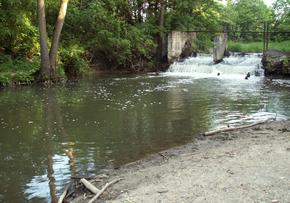 Old water gate on Sanna river; Subcarpathian Voivodeship, Poland